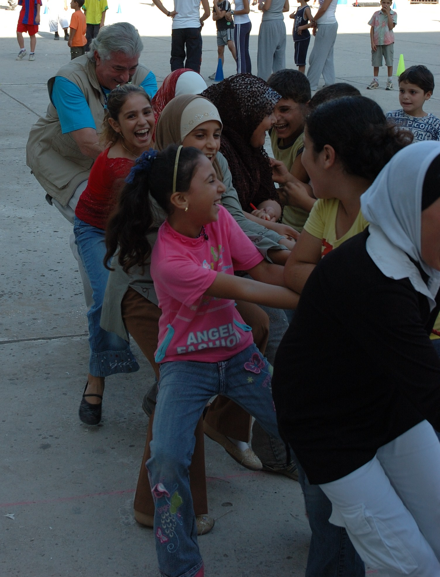 It took the kids about half an hour to work out he was 'The Mahmoud Kabil'. INTERSOS Tyre child friendly space in Government School No.2. With UNICEF funding